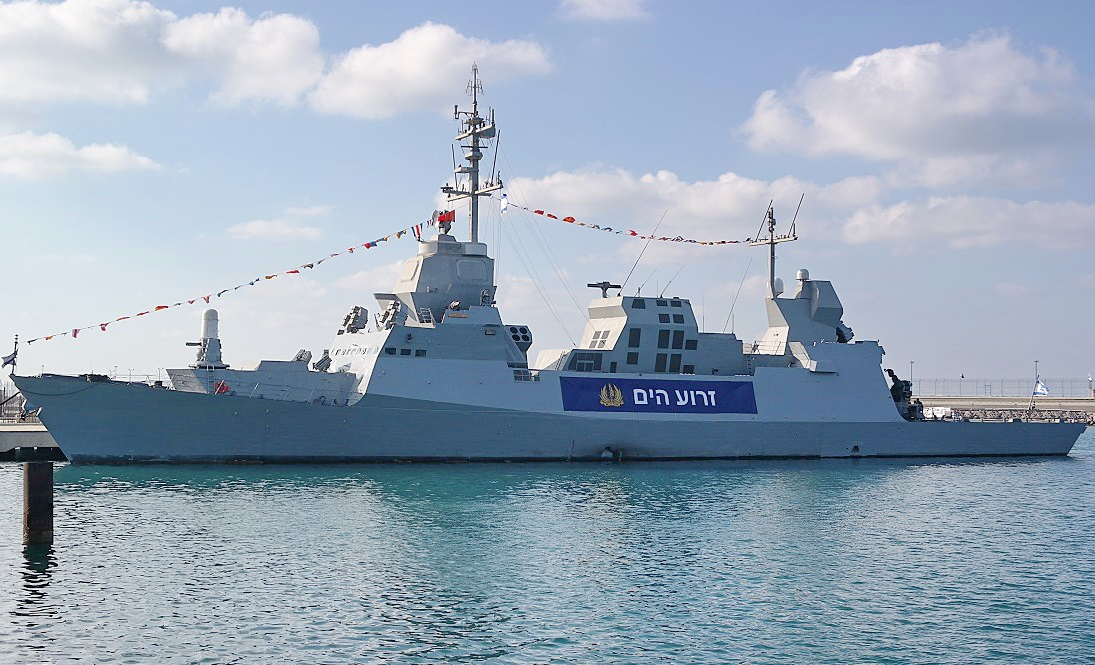 The most advanced SA'AR 5 corvette in the Israeli navy. Now equipped with MF-STAR radar and BARAK-8 Surface to Air Missiles.